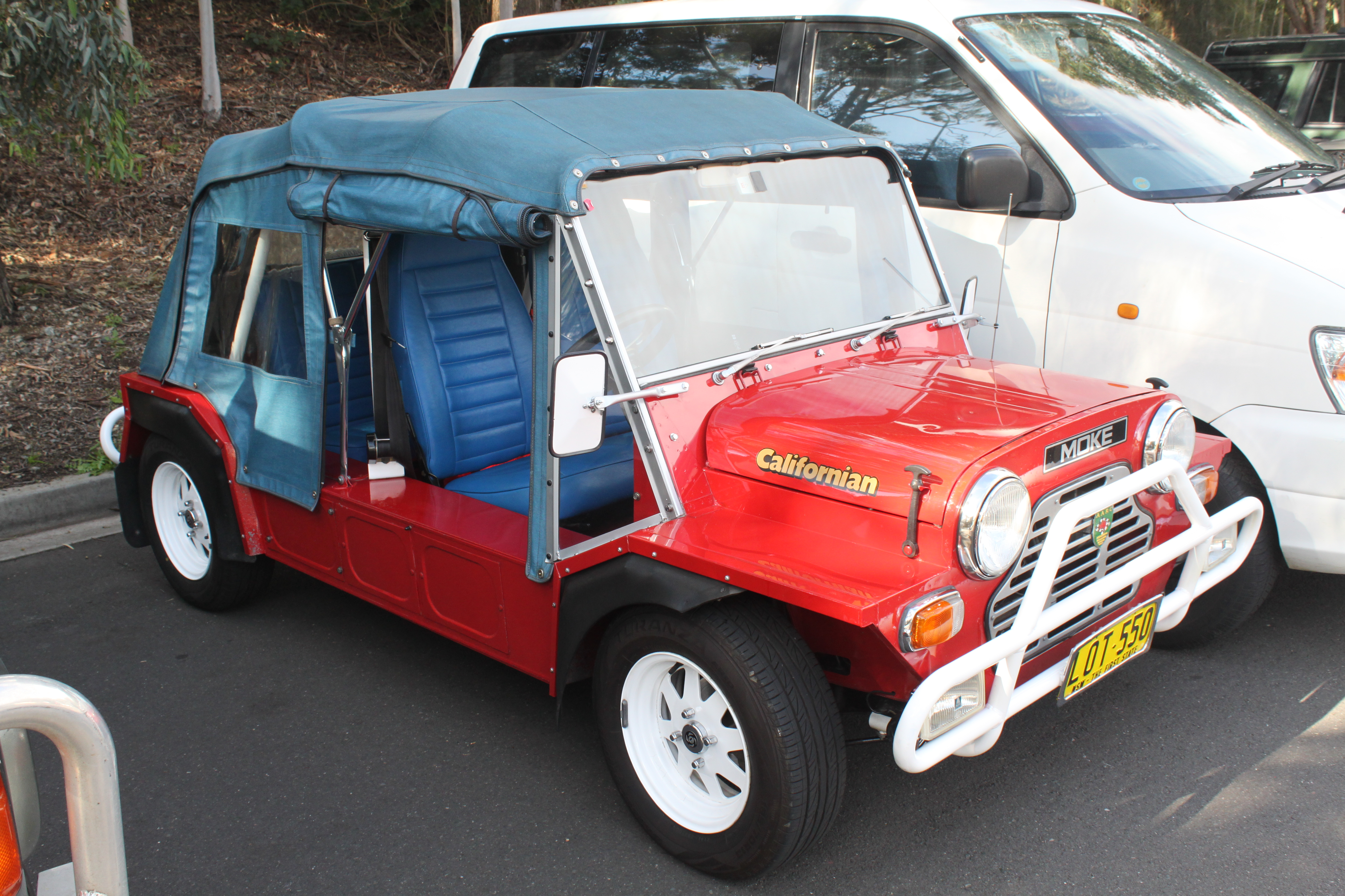 Leyland Moke Californian